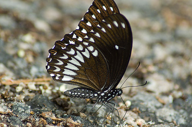 Papilio dravidarum mud-puddling in the Valparai foothills, Pollachi, Tamil Nadu.